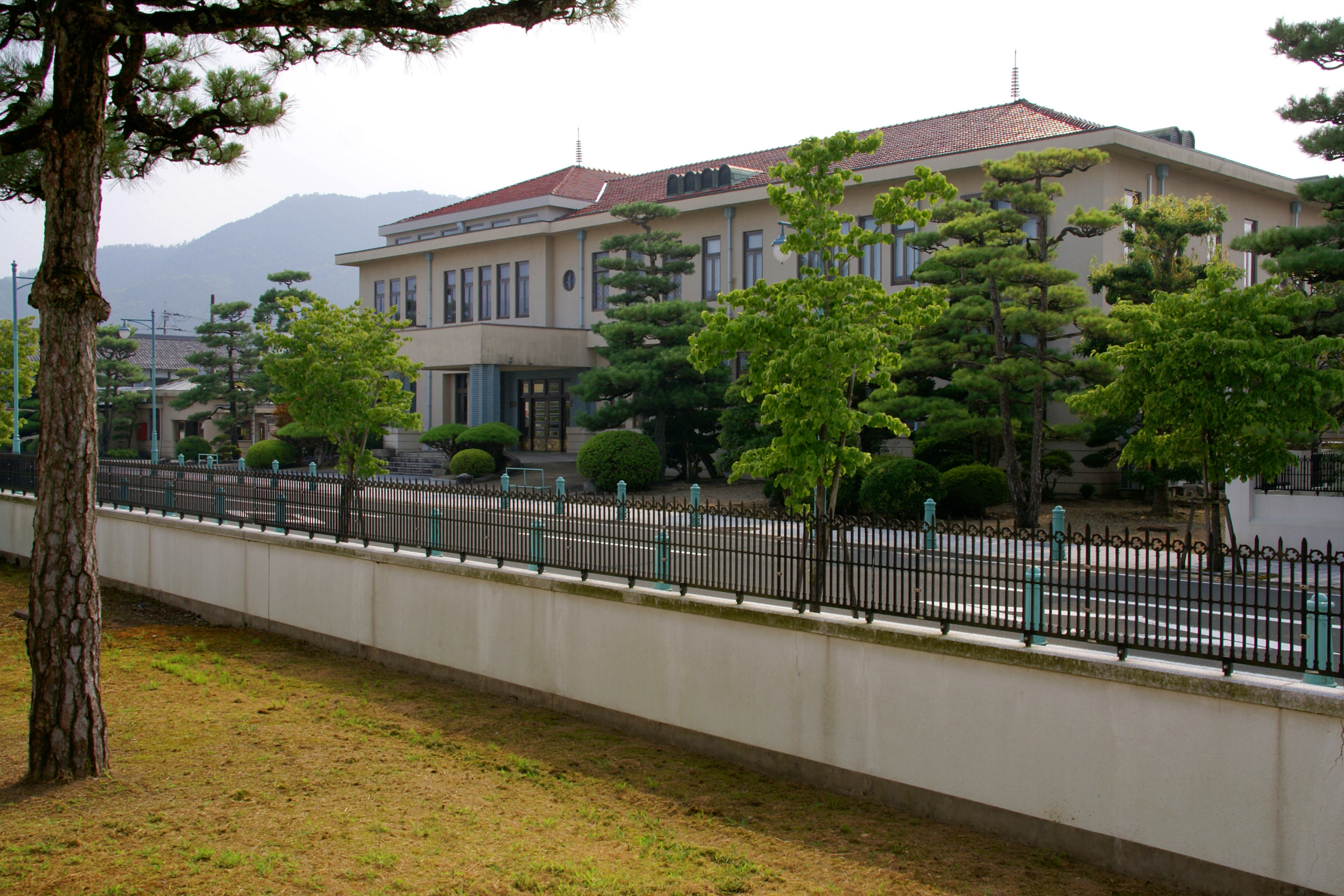 Gunze Head Quarters in Ayabe, Kyoto prefecture, Japan